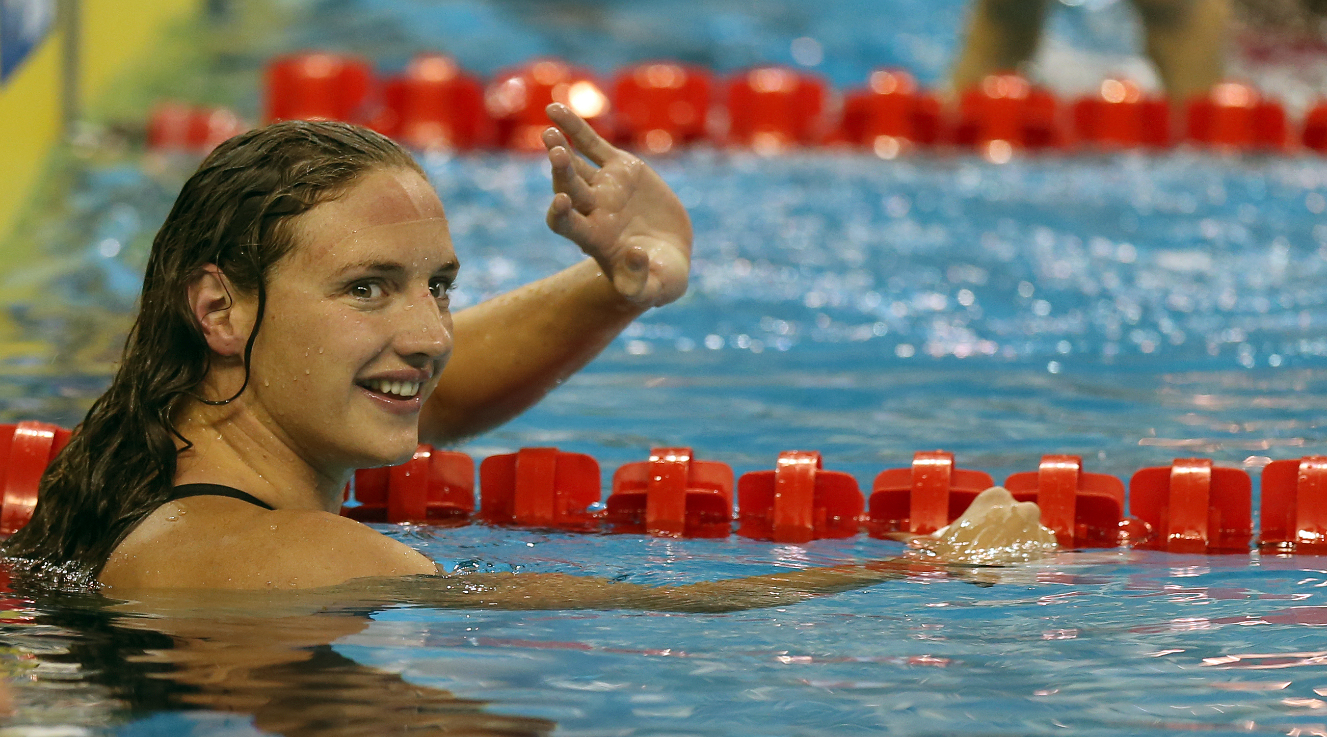 Katinka Hosszu Doha Stadium Plus: Vinod Divakaran